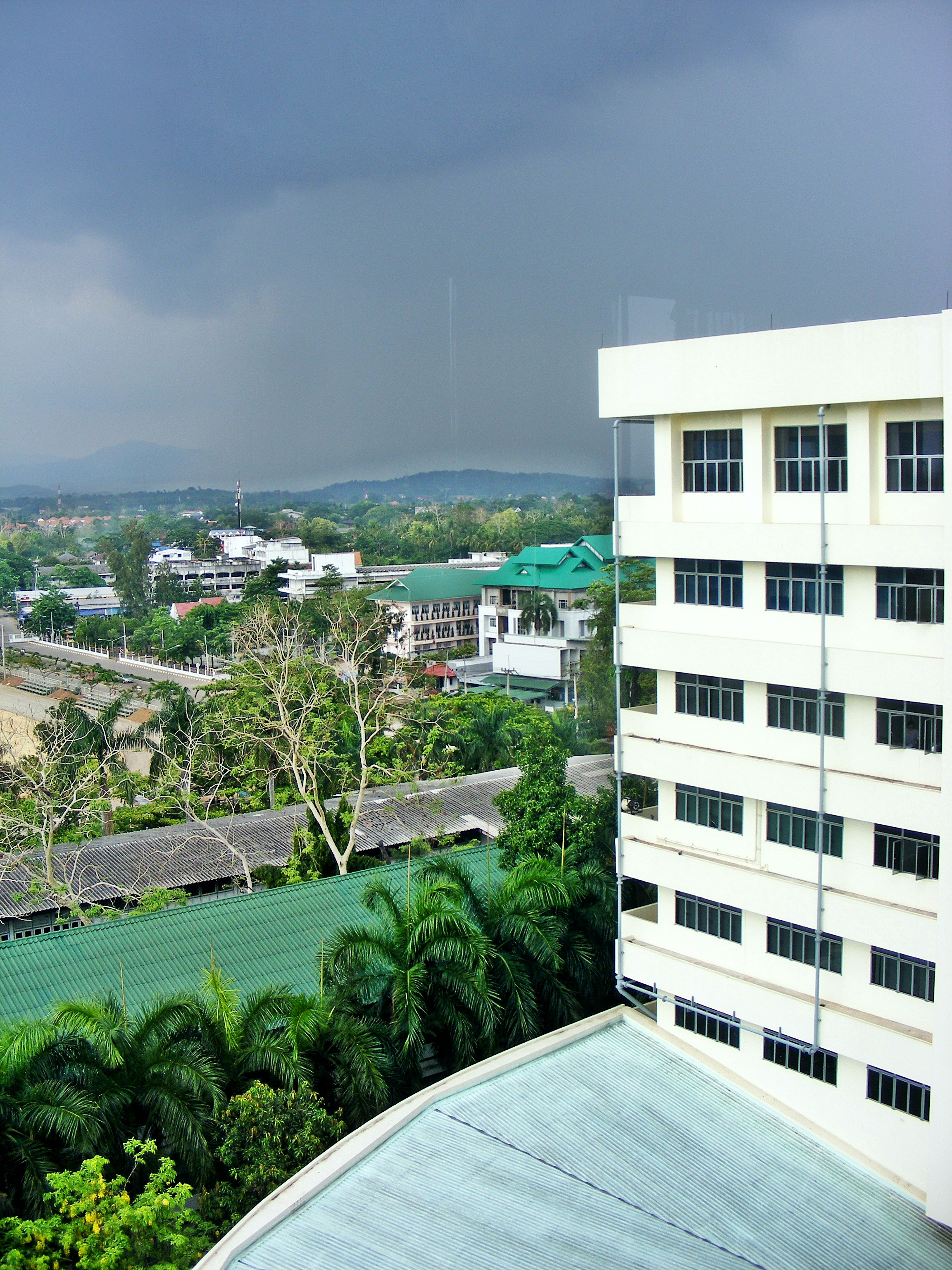 Uttaradit Rajabhat University Location: Uttaradit Rajabhat University Mueang Uttaradit, Uttaradit Province, Thailand.